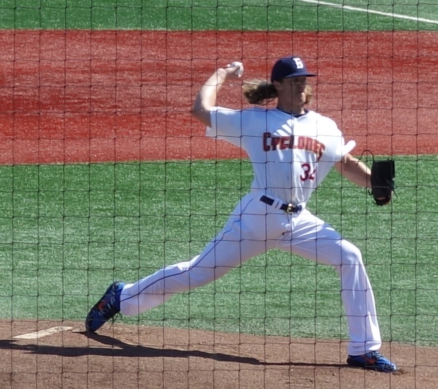 New York Mets starting pitcher Noah Syndergaard, on a rehab assignment with the Class A Short Season Brooklyn Cyclones, warming up prior to the 1st Inning of the Cyclones vs. Staten Island Yankees game at MCU Park on July 8, 2018.